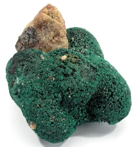 Atacamite Locality: Mt Gunson, Stuart Shelf area, Andamooka Ranges - Lake Torrens area, South Australia, Australia (Locality at ) Size: 5.7 x 5 x 4 cm. A lovely and distinctive stalactite of beautiful forest green Atacamite. The specimen has three distinct lobes, all surrounding a piece of country rock. The base exposes the radial growth of the Atacamite, and there one can see the superb luster and interesting habit of the mineral. Ex. Charlie Key.